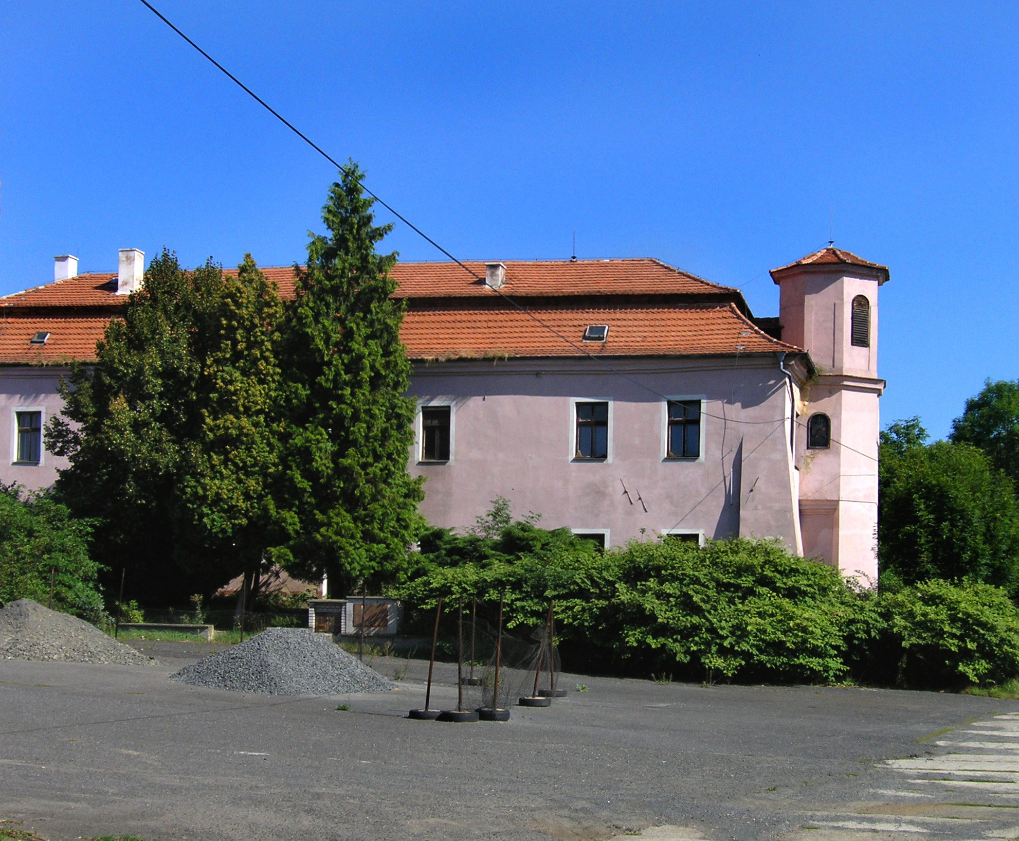 Velký Újezd castle in Býčkovice village, Czech Republic